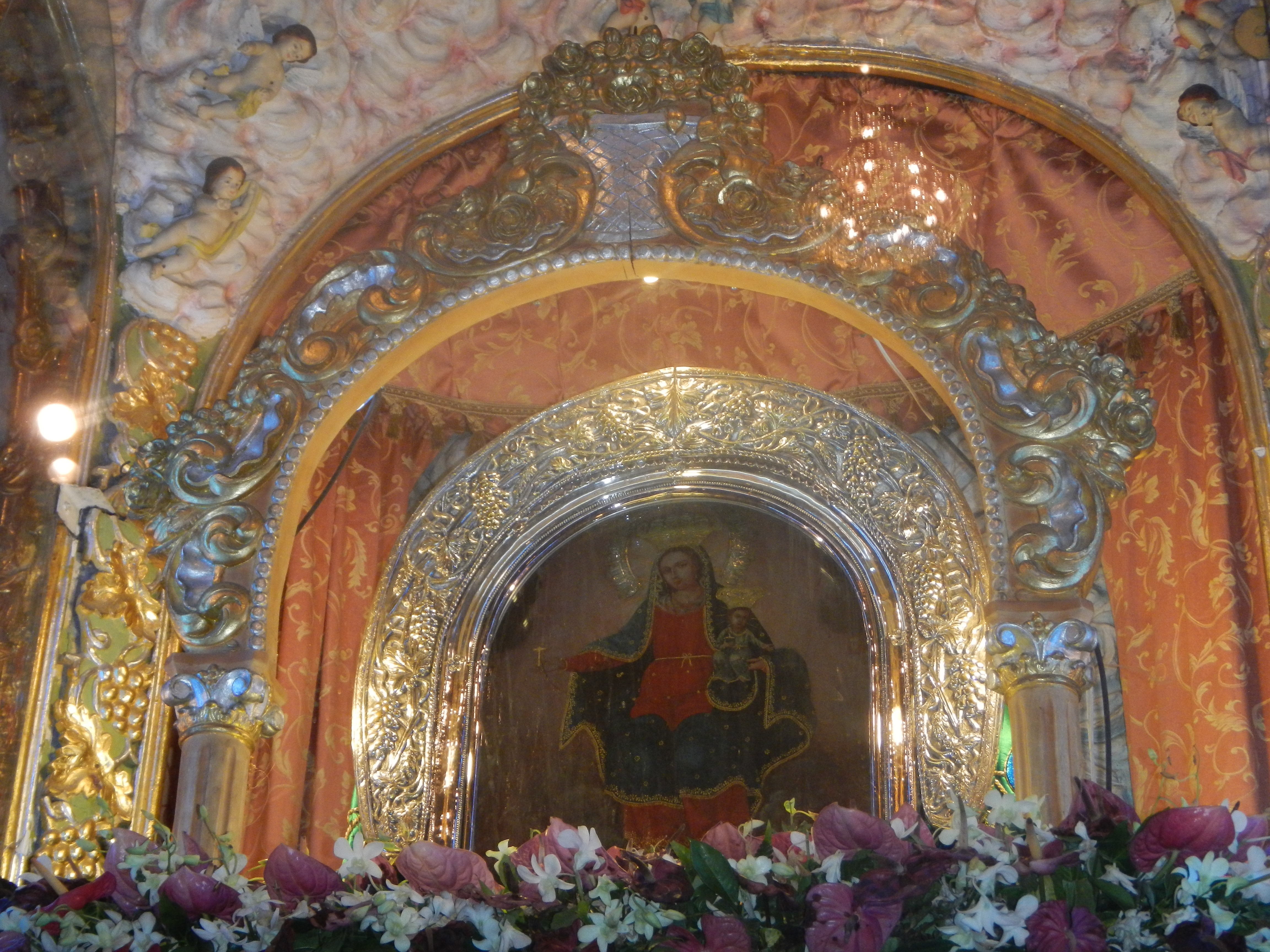 1845 Nuestra Señora Virgen del Santissimo Rosario, Reina de Caracol[1] or "Parish of the Most Holy Rosary" or "The Most Holy Rosary Parish" was conscerated on May 1, 2005 (El Pueblo Amante de Maria) (Our Lady of the Most Holy Rosary, Queen of the Caracol) also called "La Reina de Caracol" or "Mahal na Birhen ng Santo Rosaryo" is the patroness of Rosario "Salinas", Cavite,[2]Philippines. The Blessed Virgin Mary is depicted as Our Lady of the Most Holy Rosary.[3] ---Parish Priest - Fr. Gilberto Delima Urubio October 22, 1845 - Scout Torillo St., Poblacion, 4106 Rosario, CaviteWebsite -- It belongs to the Roman Catholic Diocese of ImusVicariate of The Holy Cross, Vicar Forane: Rev Fr. Calixto C. Lumandas, Parish Priest and Vicarial Representative: Rev Fr. Gilberto D. Urubio.[4] Patron Saint: Nuestra Señora del PilarHistory Pope Francis names Boac Bishop Reynaldo Evangelista new Imus bishop, his first appointment in PHL [5] Currently there are 47 parishes, 9 quasi parishes and 4 pastoral centers in the diocese of Imus. [6] -------- ---------[N.B. Photography of Rosario, Cavite[7]: 30% cloudy and 70% sunny weather using my Nikon AW 100 waterproof shockproof camera. From Bulacan at 9:35 a.m., I took photo of the Baliuag Transit Original station, and at 11:38 a.m., the 5th Avenue LRT Station[8]; then I arrived at Rosario, Cavite and captured Noveleta Battle bridge at 2:08 pm, and then the Salinas Town or Rosario, Cavite at 2:33 pm and finished photography at 7:04 pm, and arrived at Bulacan at 11:30 pm after 4+ hours of travel by bus, and started uploading via slow internet at 11:40 pm - I hereby certify that these raw, original and unedited photos are exclusive for Commons and Wikipedia never uploaded in any Internet or any site, and for the public domain without any condition.]